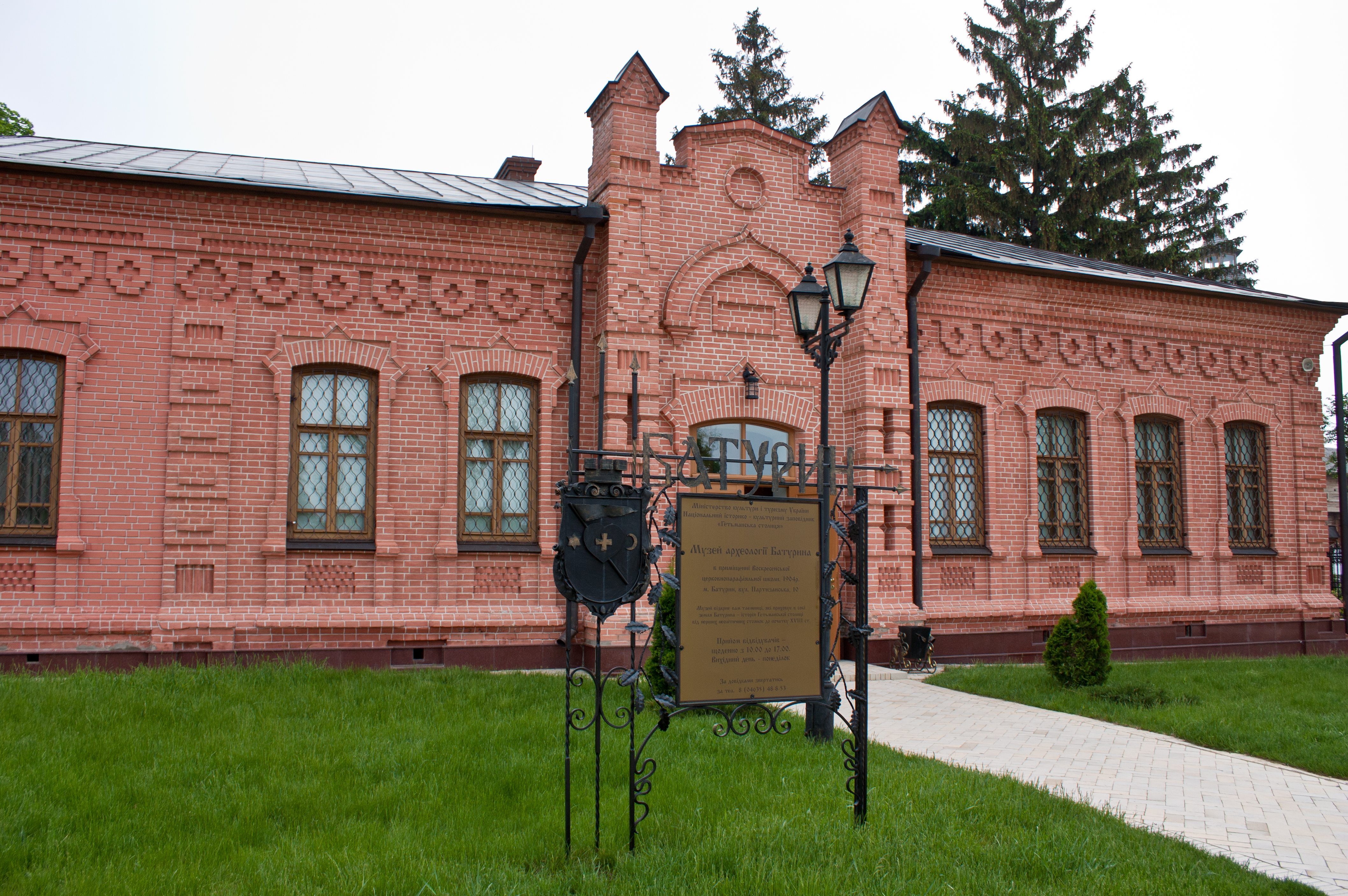 Building of the Resurrection Parish School, now the History of Baturyn Museum